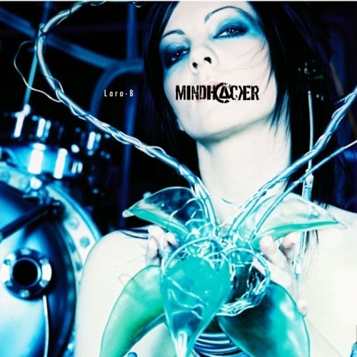 Lara-B, album Mindhacker (2005), album cover